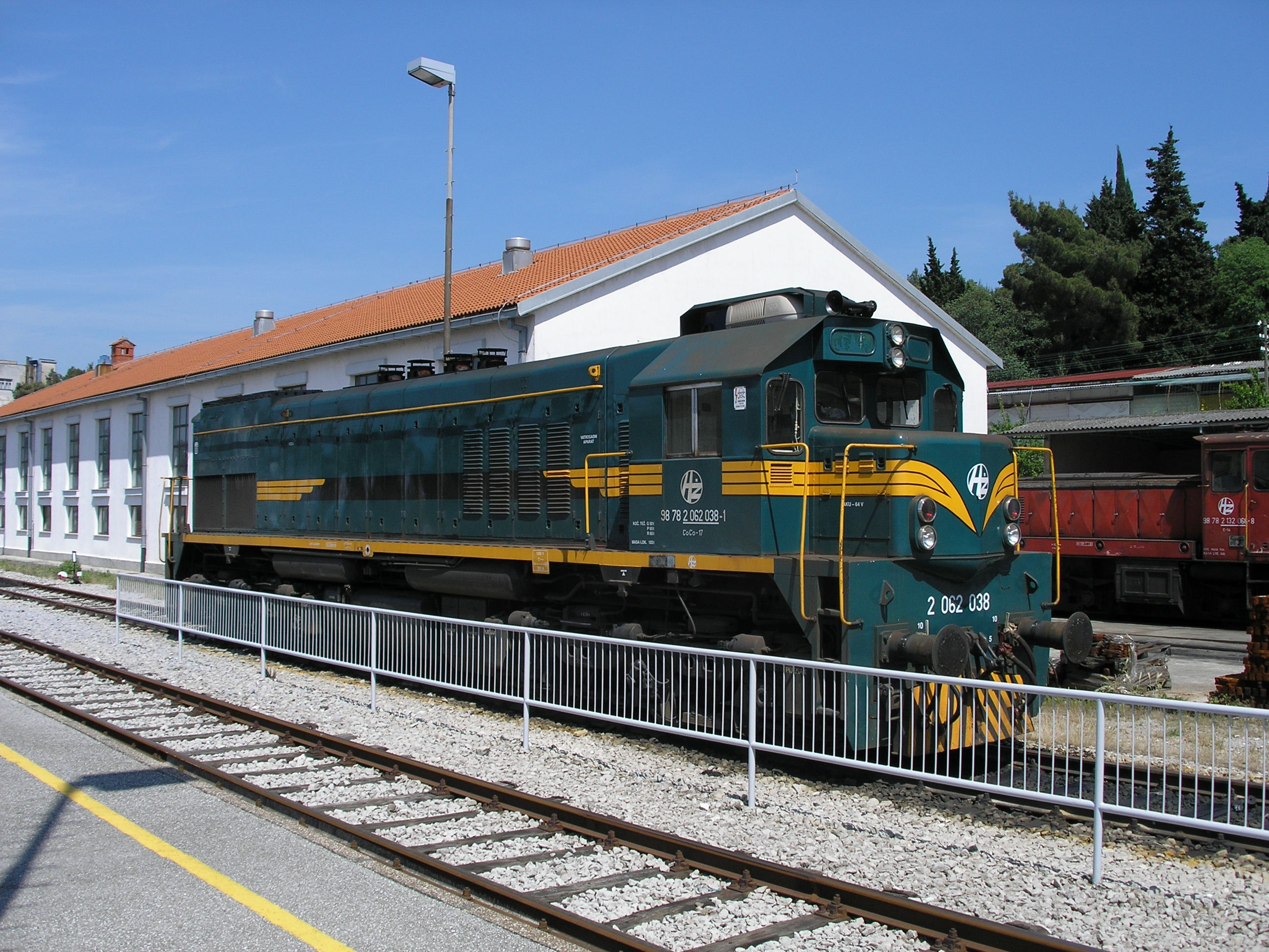 2062 036 locomotive (EMD G26) in Pula, Croatia